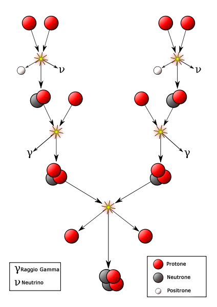 Italian translation of Image:FusionintheSun.svg